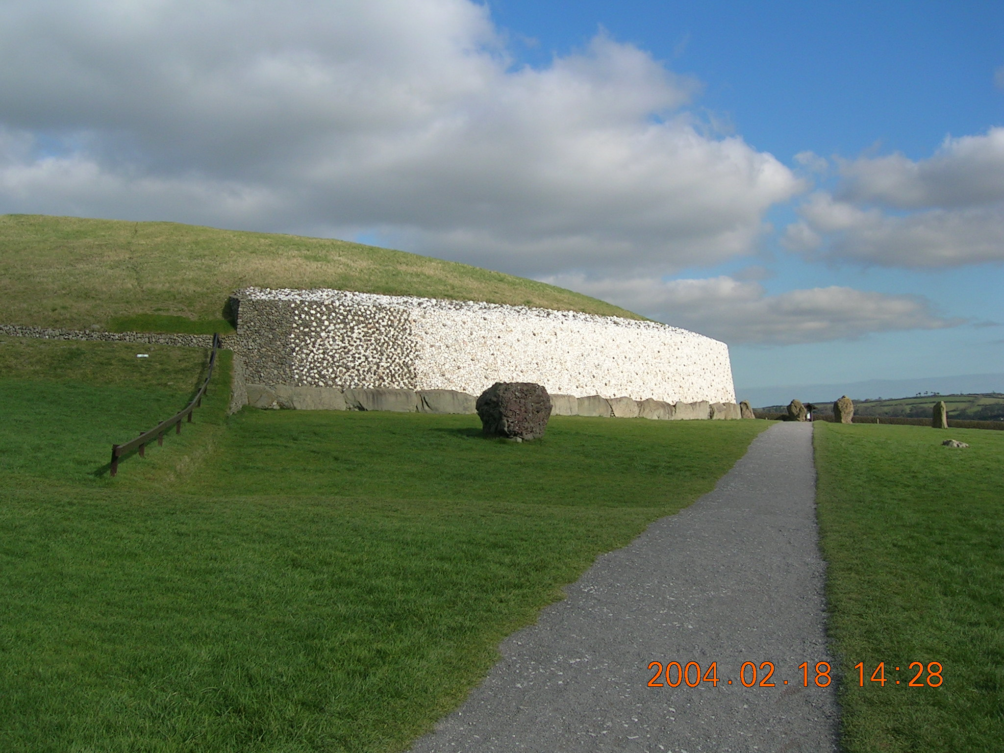 Brú na Bóinne - Archaeological Ensemble of the Bend of the Boyne (Ireland)